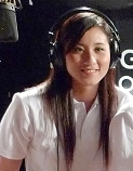 eag